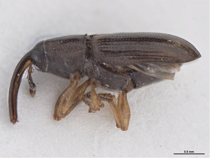 weevil Elaeidobius kamerunicus